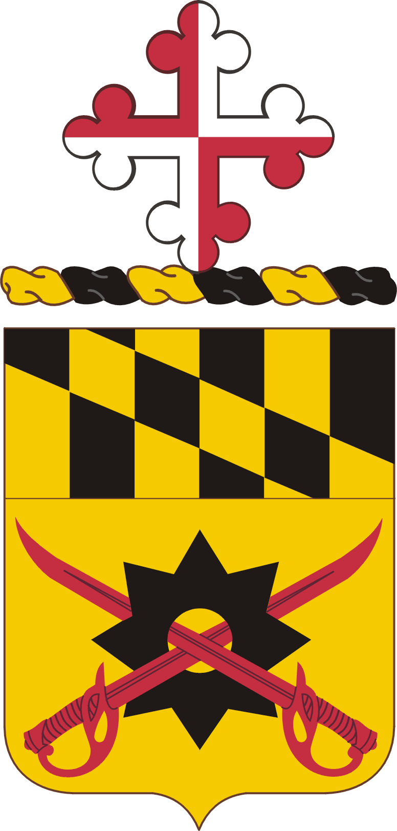 158 Cavalry Regiment Coat of Arms